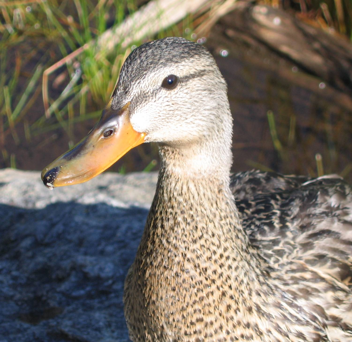 Female duck (Mallard) cropped from digital photograph taken by uploader at Rocky Mountain National Park, August 2005.